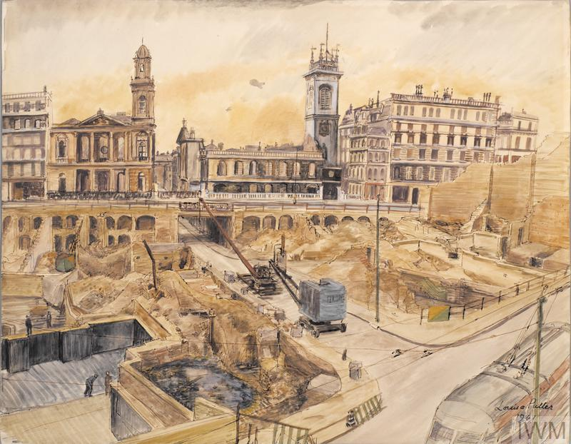 Aview of a large cleared bomb site showing the foundations of destroyed buildings and with the Holborn Viaduct to the rear.